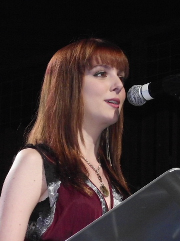 Sahara Smith at the 2011 Austin Music Awards. Photo by Ron Baker.